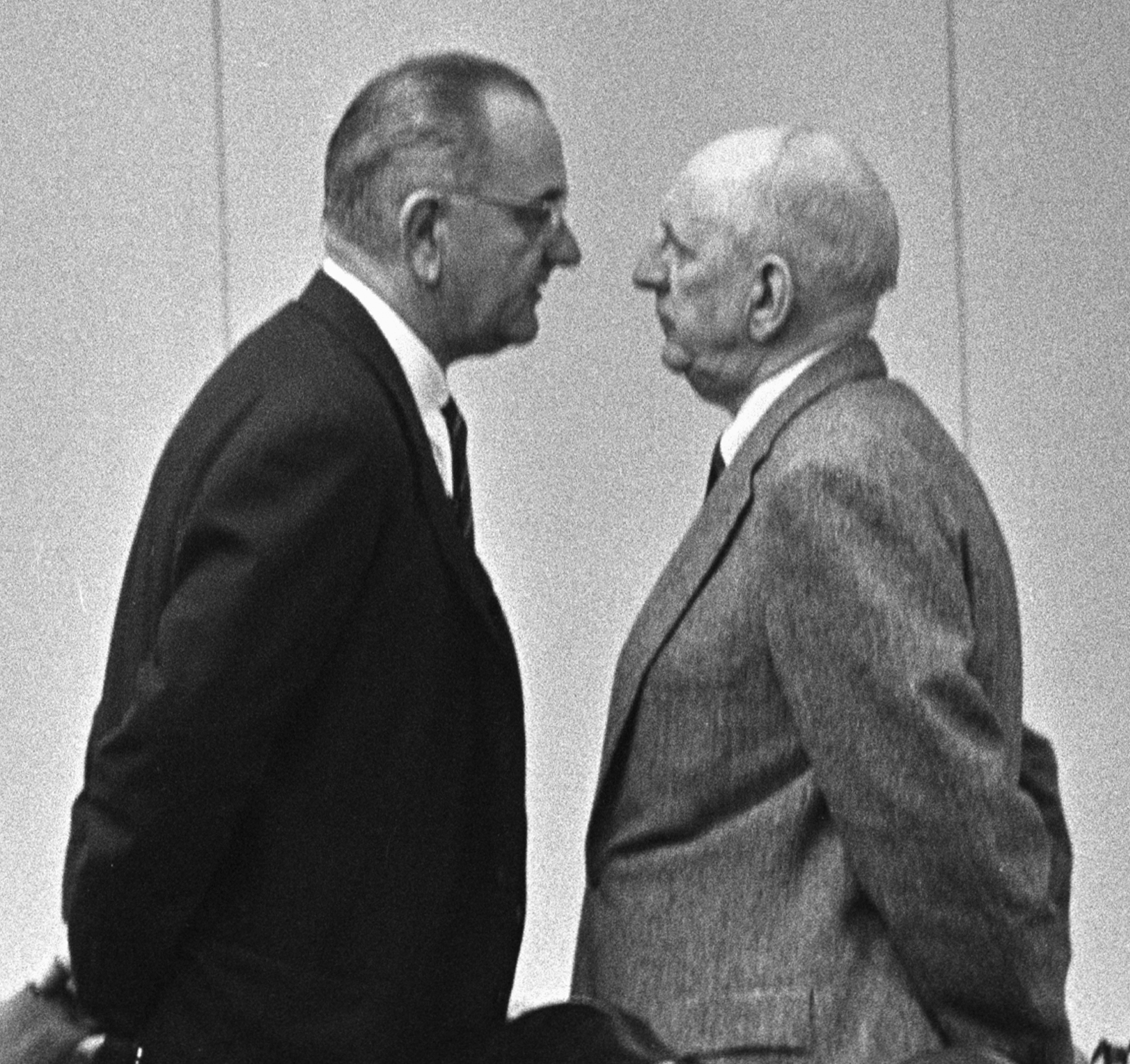 Lyndon B. Johnson meets with Sen. Richard Russell